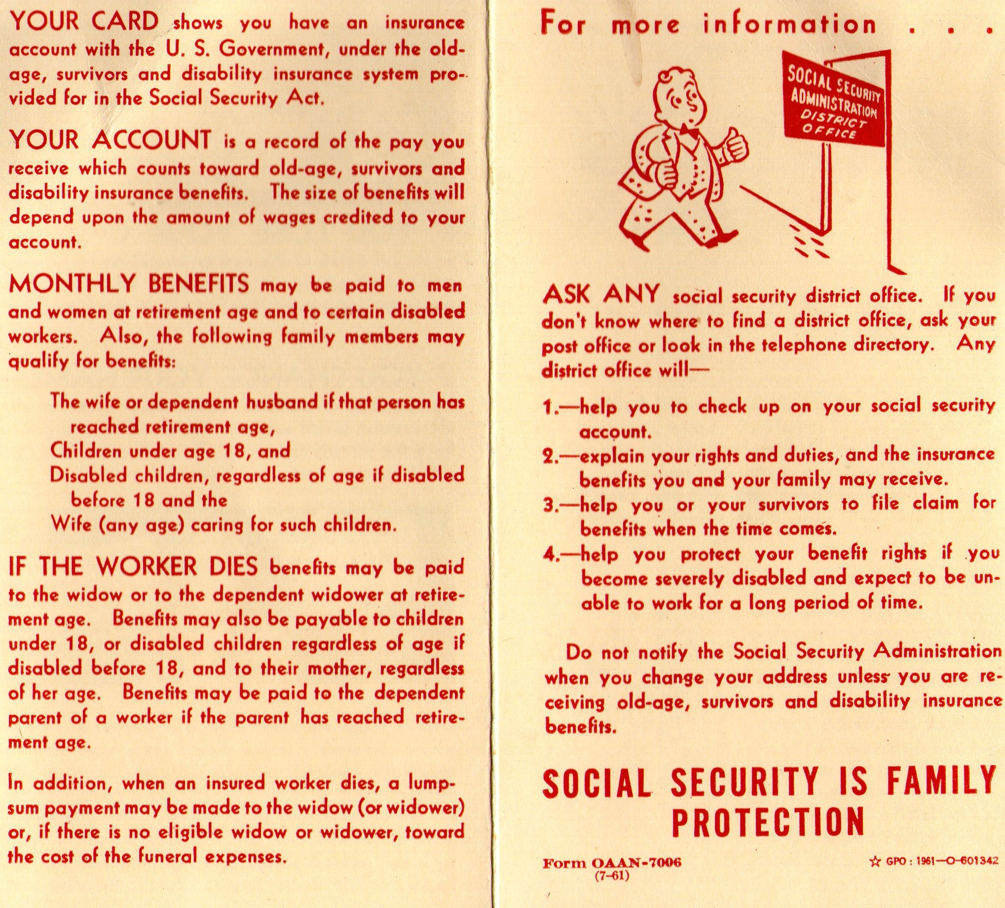 U.S. government brochure possibly titled "Social Security is Family Protection" or "For more information ..." (both large-typeface statements on the first page of the brochure), giving basic advice for people who have just received a Social Security card; the first page is on the right, the fourth and last page is on the left (another image, File:BrochureUSSocialSecurity1961Pages2and3FormOAAN7006.jpg, has the two middle pages from the other side of the paper); the original brochure is colored as shown in this image (brownish red ink on paper that looks and feels like an old manila file folder, and about the same thickness); the folded brochure is about three inches wide by about five inches long, with the first two pages slightly wider than the rest; the right edge of the first page is rough, indicating something may have been torn from it (perhaps an additional page holding the Social Security card itself, as mentioned in the last paragraph of page two)